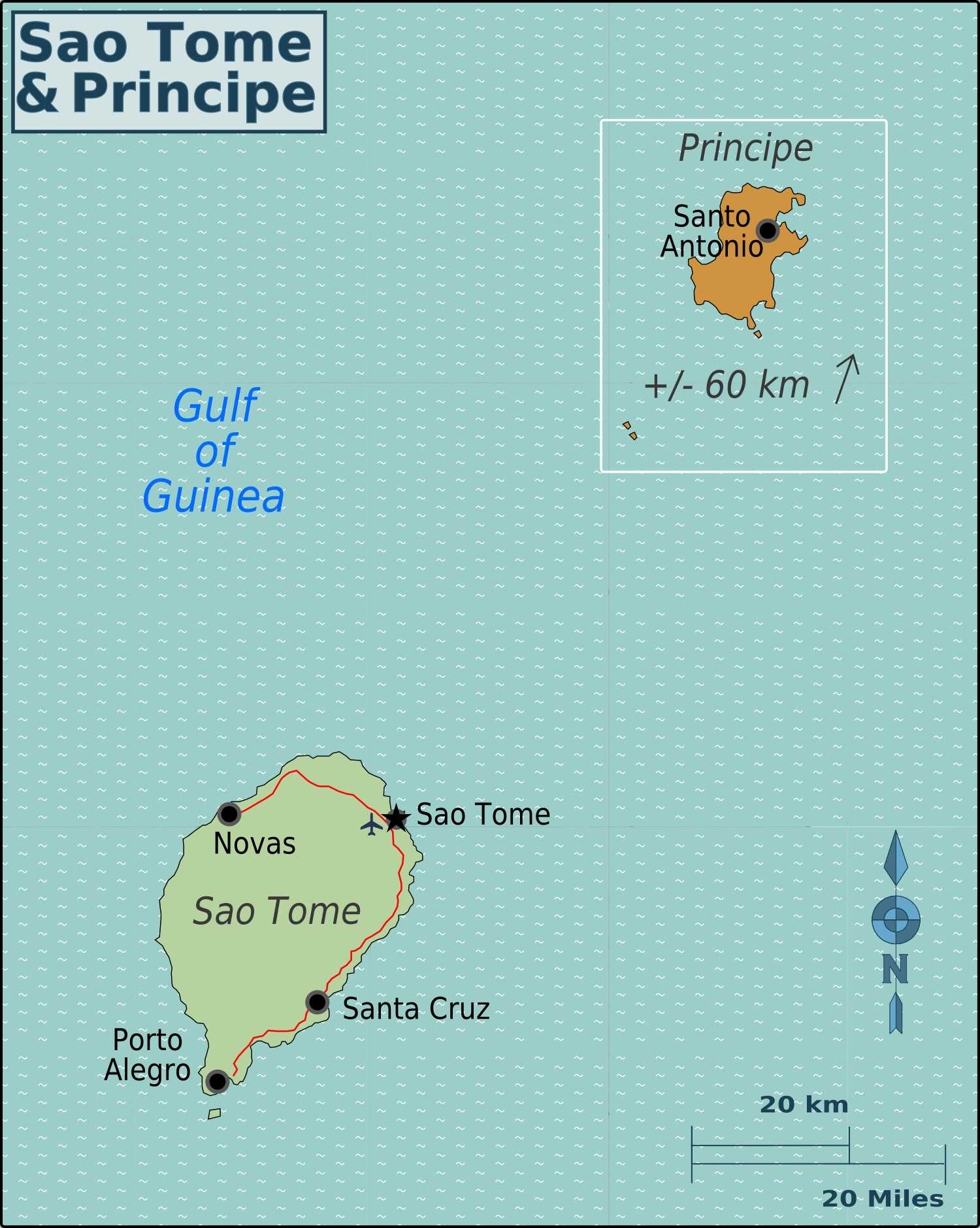 Map of São Tomé and Príncipe for use on Wikivoyage, English version